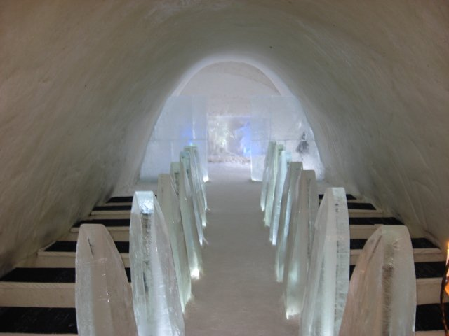 SnowChapel in SnowCastle in Kemi, Finland.